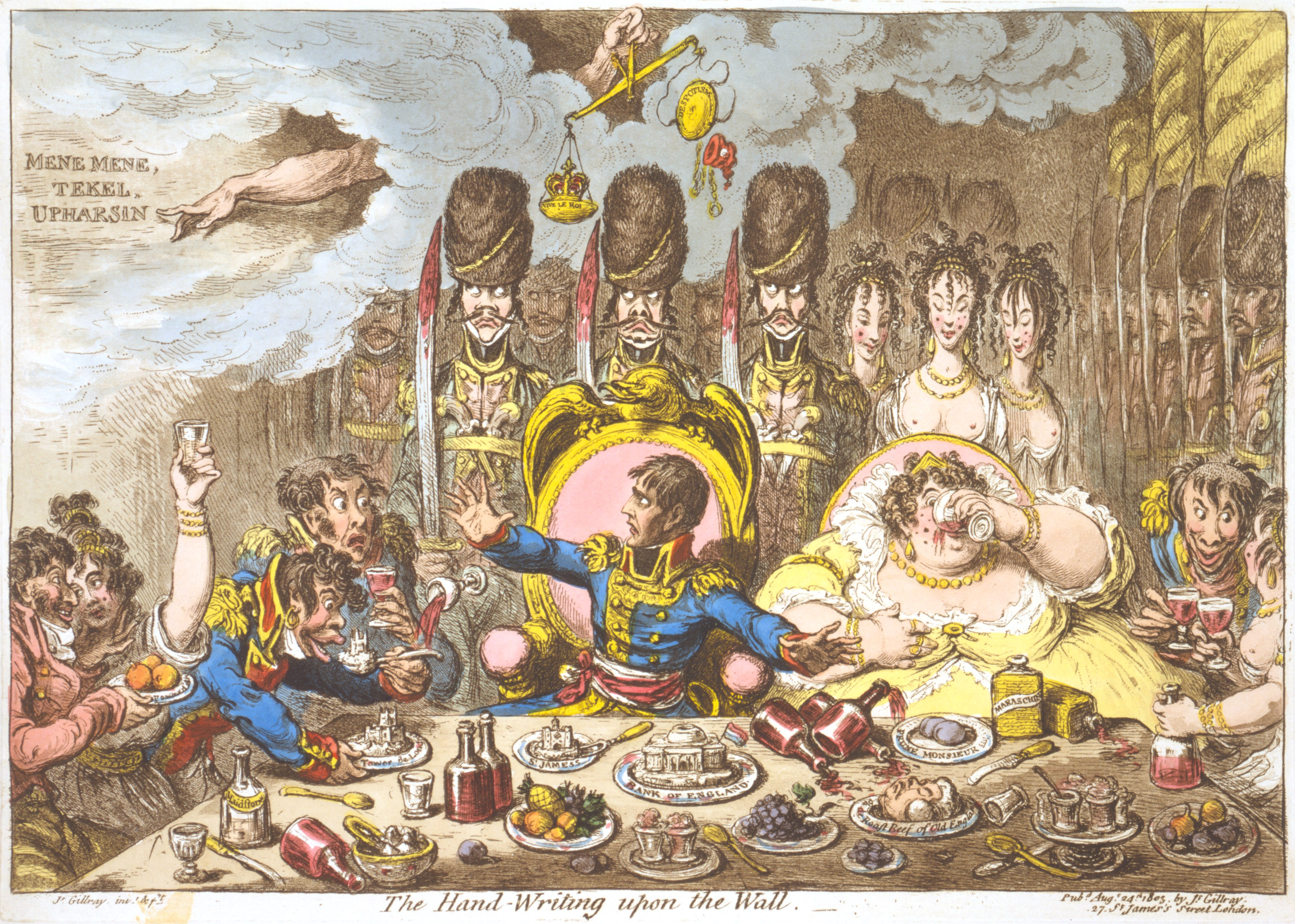 The hand-writing upon the wall / s. Gillray invt. & ft. Napoleon, Josephine, French soldiers and women seated at feast with dishes "Bank of England," "St. James," "Tower of London," and "Roast Beef of old England." Napoleon looks in horror at hand of Jehovah pointing to words in sky: "Mene mene, tekel upharsin." 1 print : etching and aquatint, hand-colored.